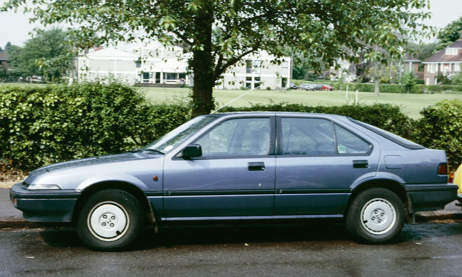 Honda Integra 5 door Hatchback / Liftback in profile in Cambridge, England